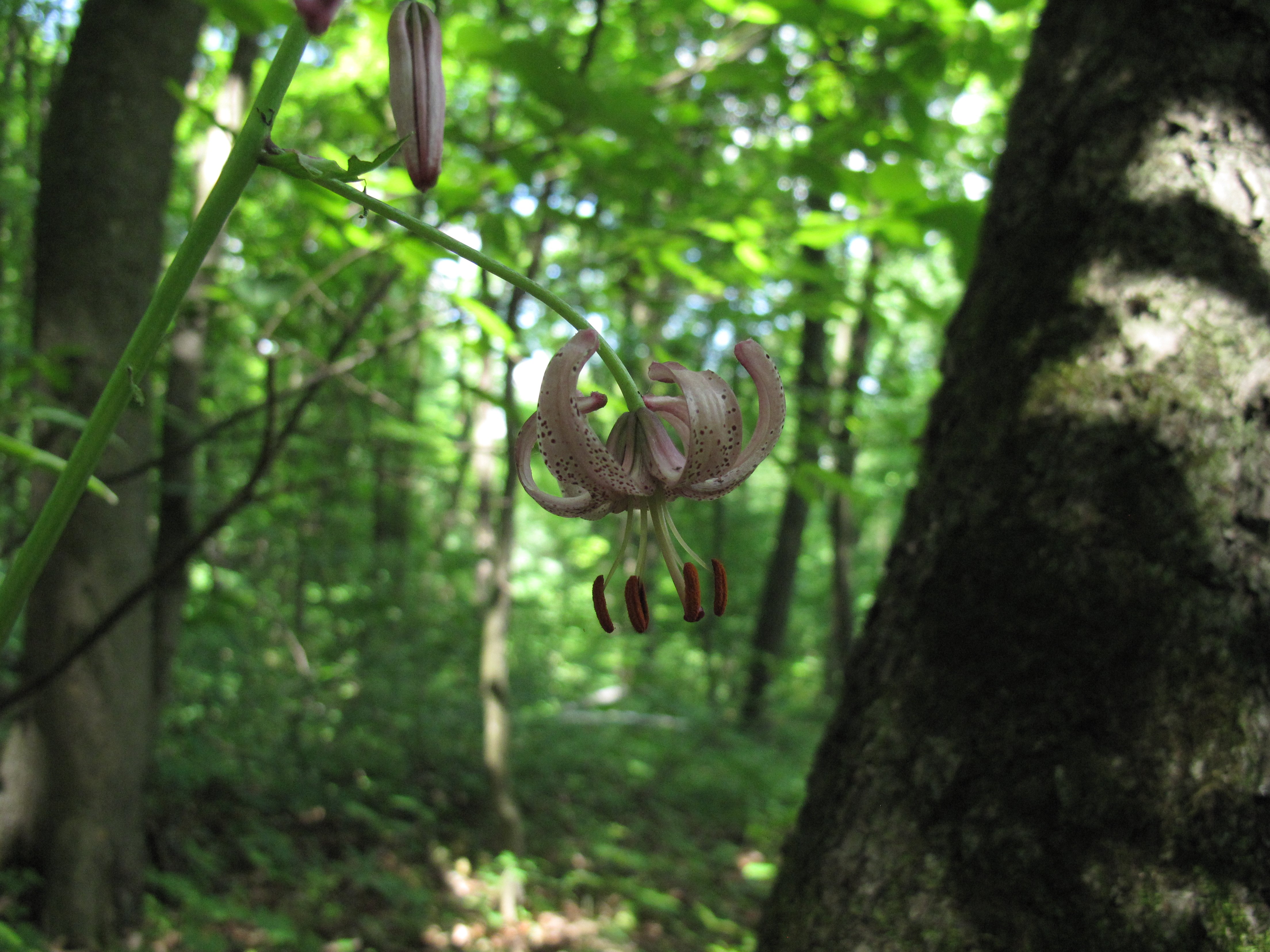 Martagon lily